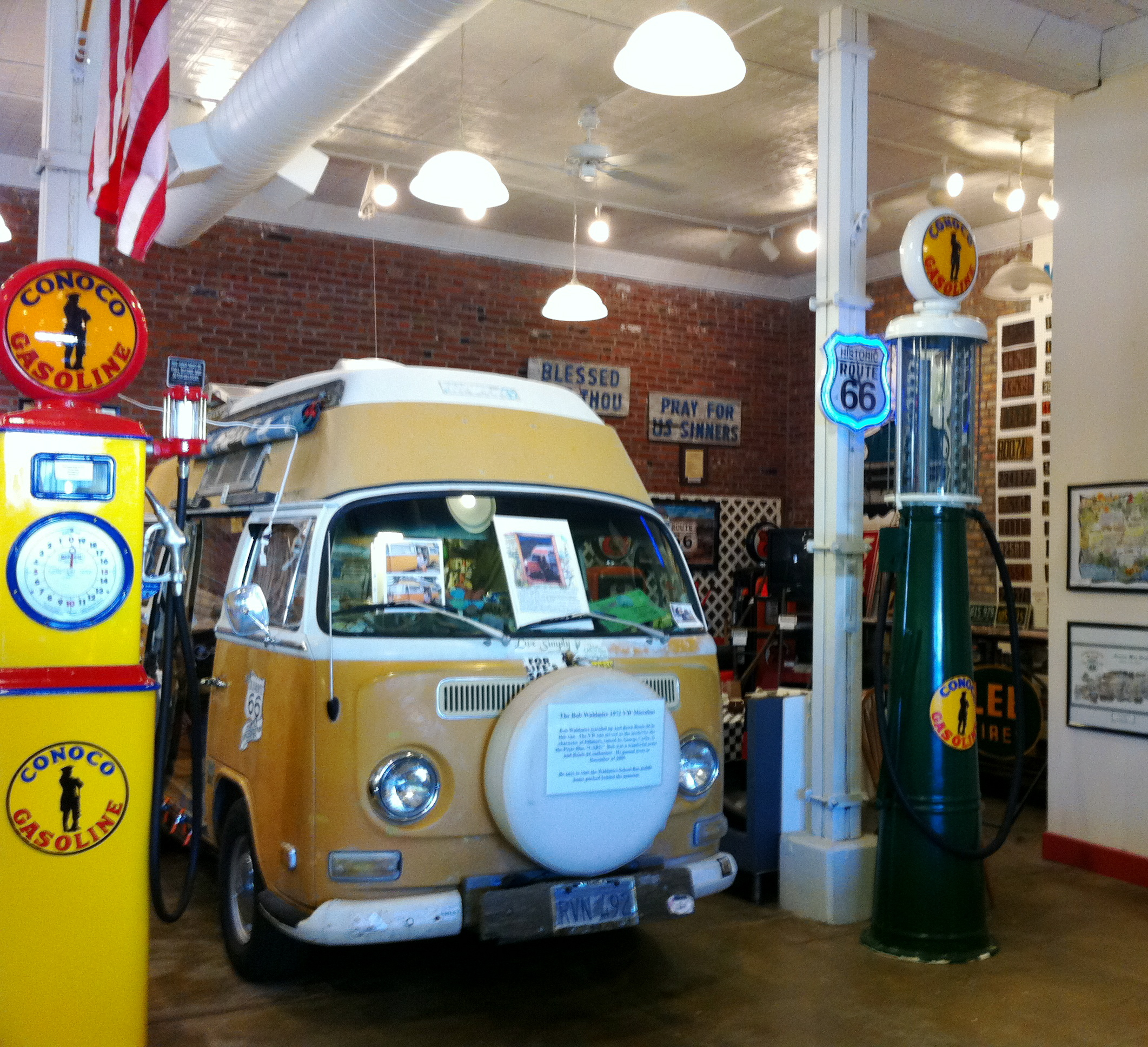 The basis for Fillmore in Cars, U.S. Route 66 travelling artist Bob Waldmire (April 19, 1945–December 16, 2009) covered US66 in this Volkswagen minibus to create distinctive hand-drawn maps and sketches of various landmarks on the historic route. (Illinois Route 66 Hall of Fame, Pontiac)